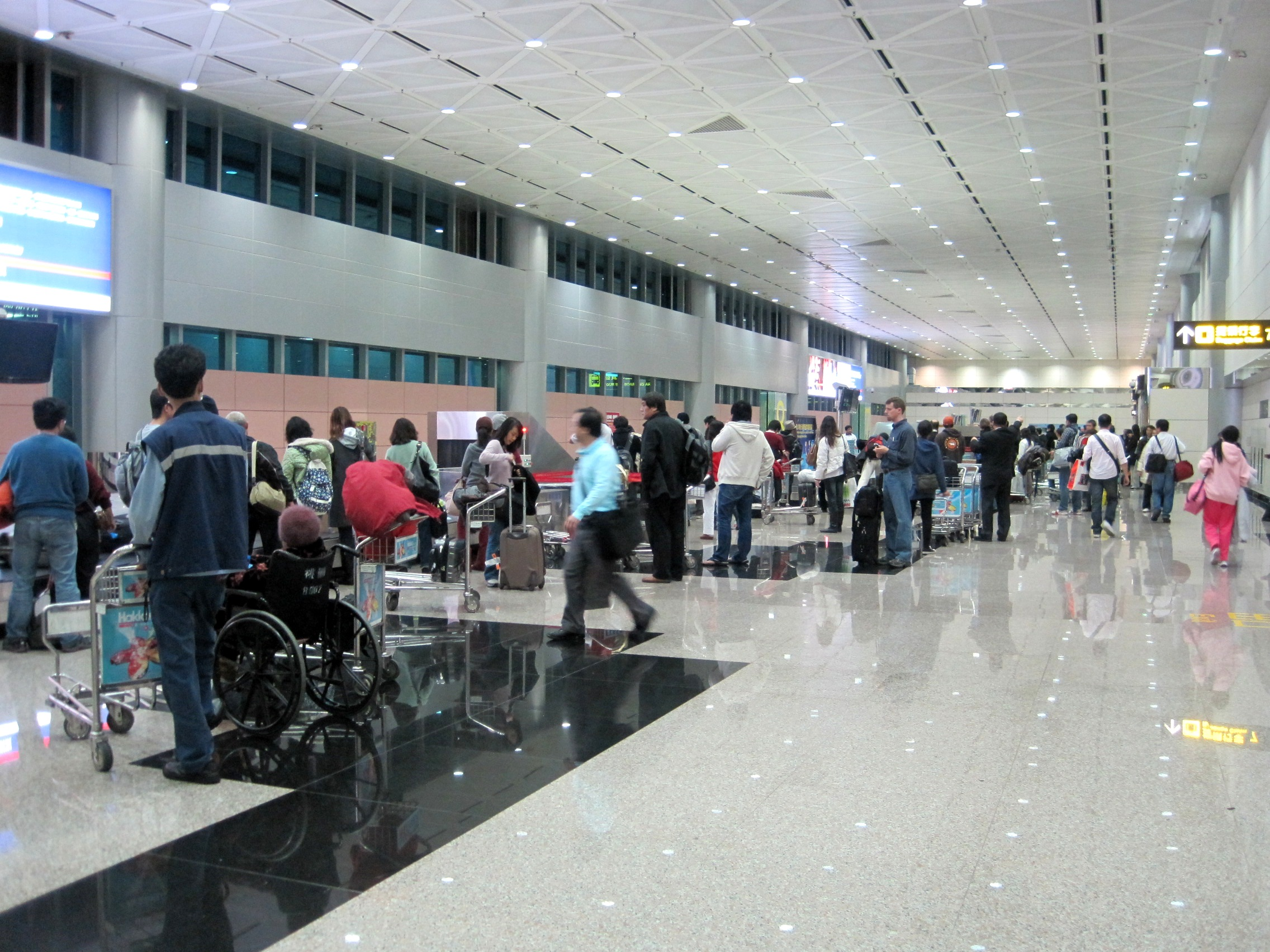 Taiwan Taoyuan International Airport baggage claim area